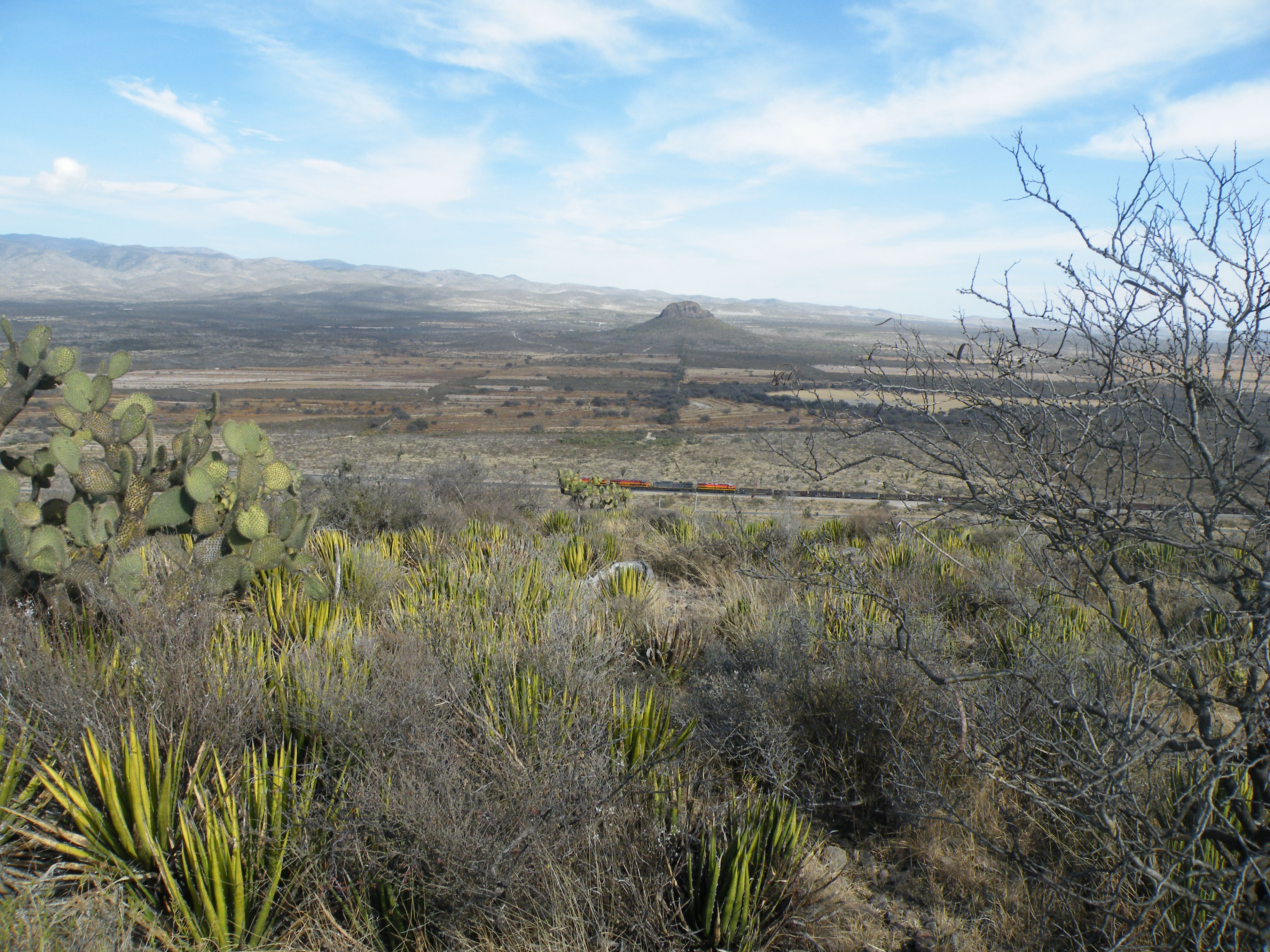 56 km South of Estacion Vanegas